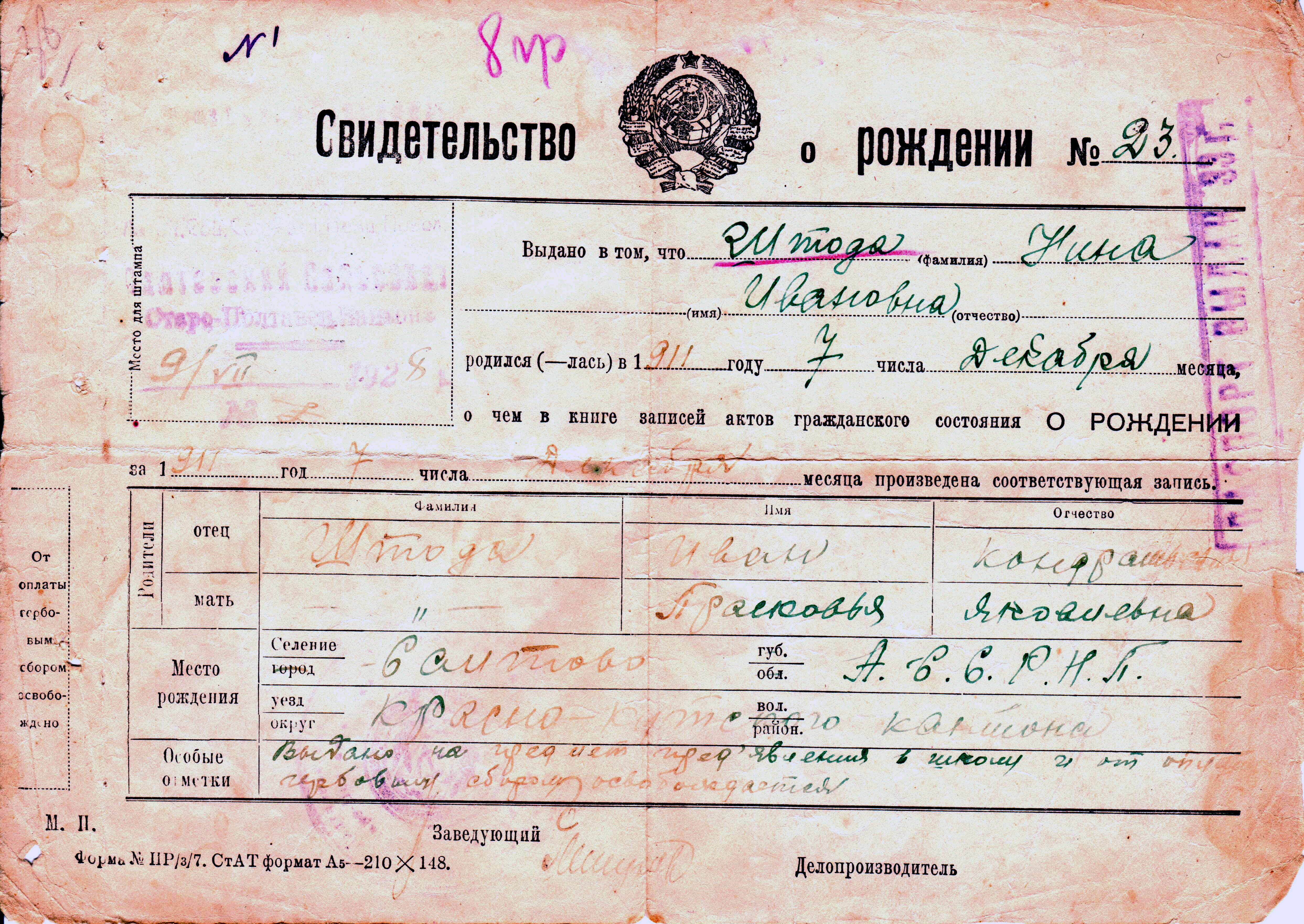 A birth certificate issued in the USSR in 1928. A mark of DIN 476 standard (A5) together with form size in millimetres appears in the left bottom corner of the form.